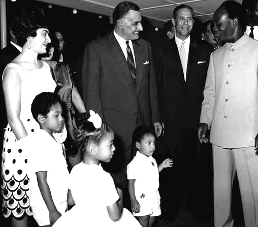 Ghanaian President Kwame Nkrumah (first from right) and Egyptian President Gamal Abdel Nasser (third from right). The child in front of Nasser is Gamal Nkrumah, the little girl is Samia Nkrumah, and Sekou Nkrumah. The woman is Nkrumah's wife Fathia Rizk